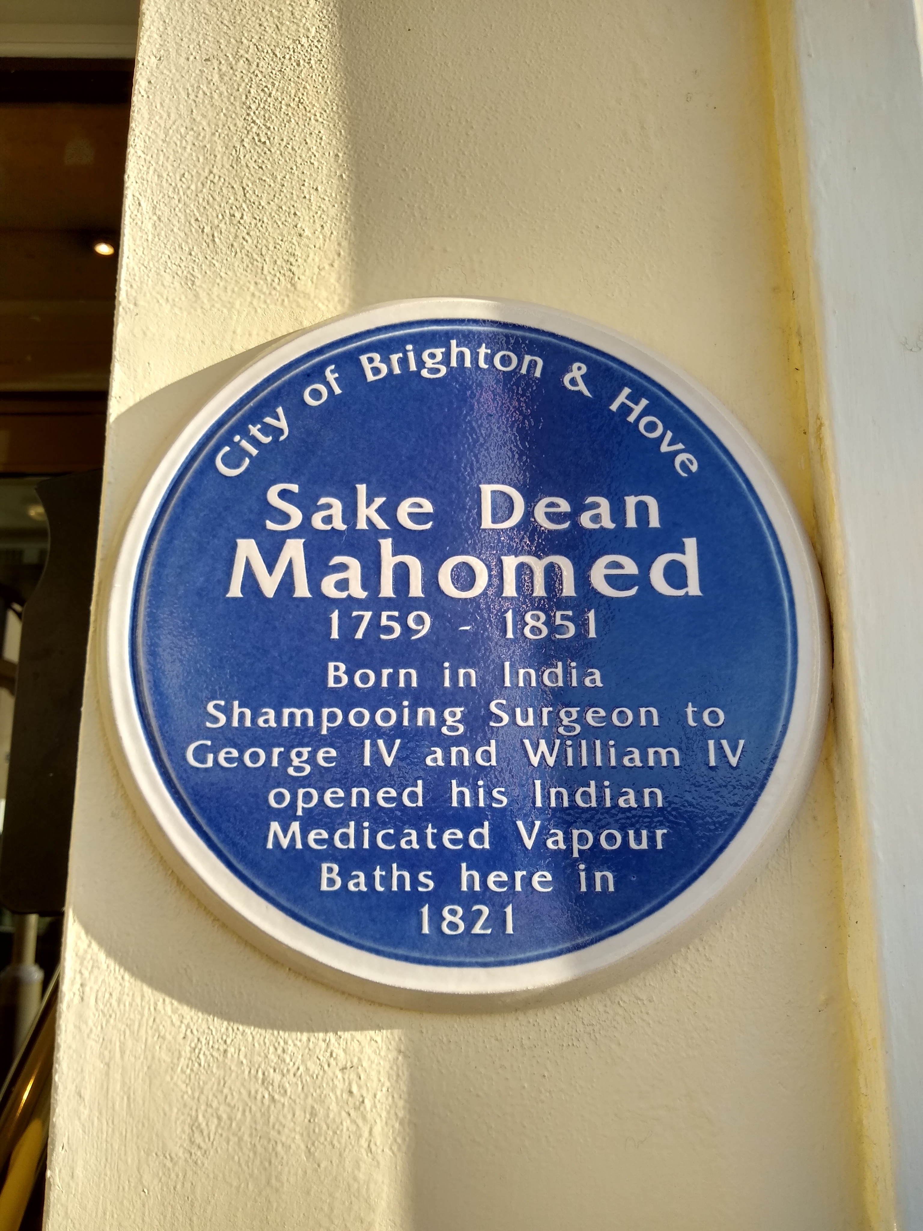 Sake Dean Mahomed plaque